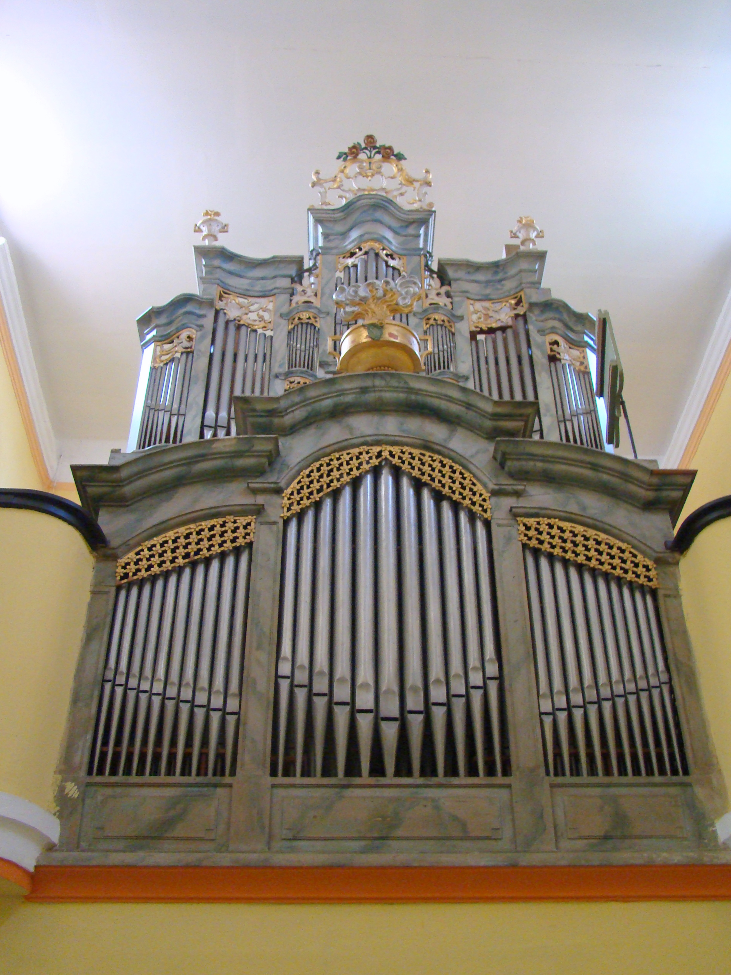 Lutheran church in Râșnov, Braşov County, Romania